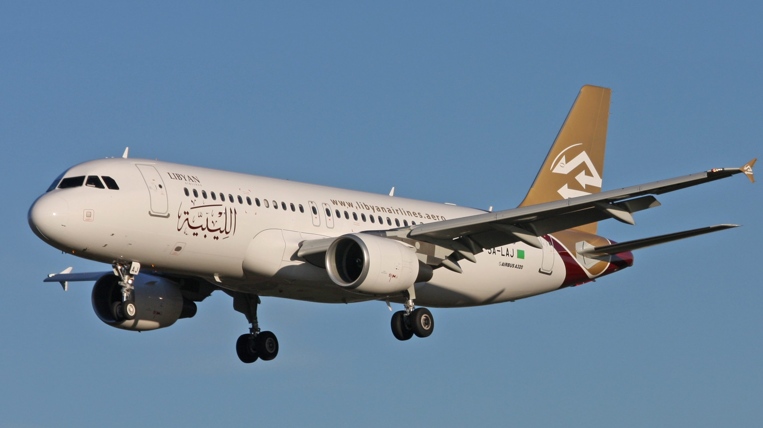 Short finals to Manchester December 17th 2010